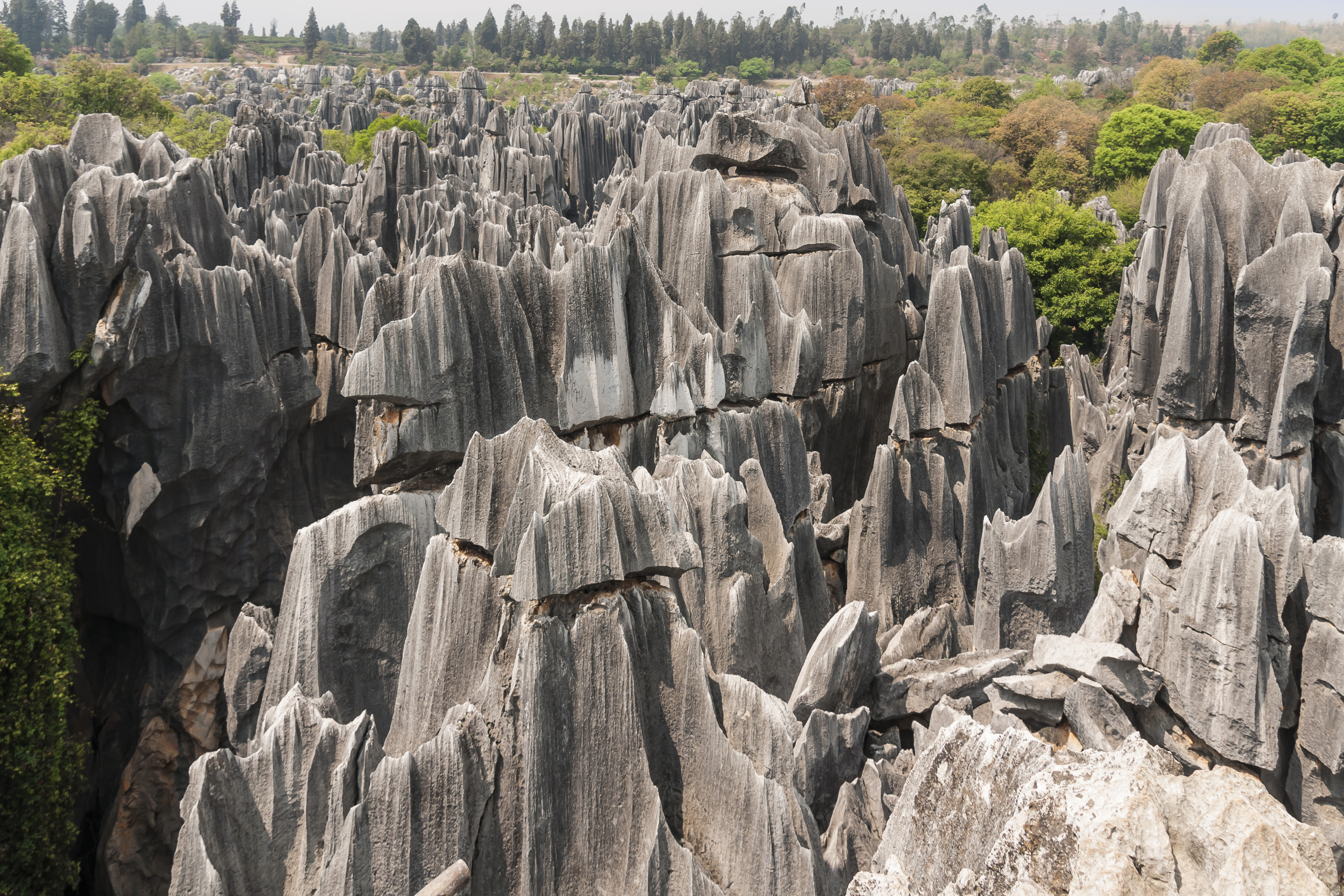 Shilin, Yunnan, China: Stone forest, a set of Karst Limestone rock formations. Part of the UNESCO South China Karst World Heritage Site.